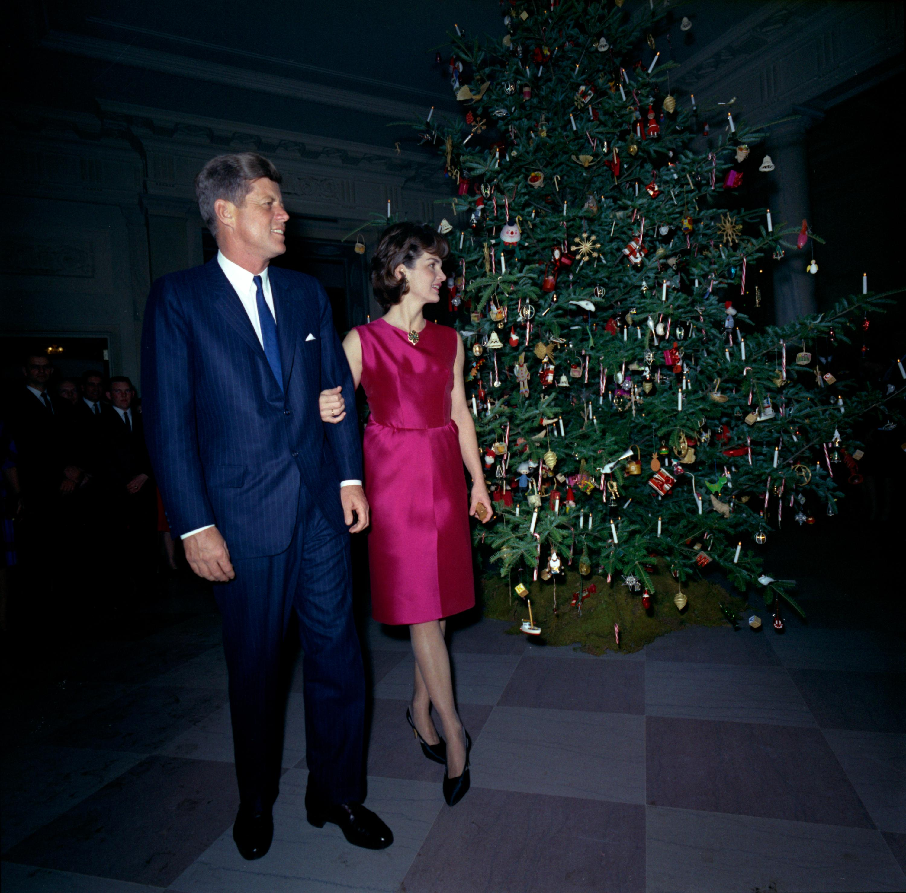 President and First Lady at Christmas Reception, 12 December 1962 White House, Entrance Hall. The Christmas tree is the official White House Christmas tree for 1962, usually located in the Blue Room, this was one of a few instances since 1961 where the tree has been displayed in the Entrance Hall.